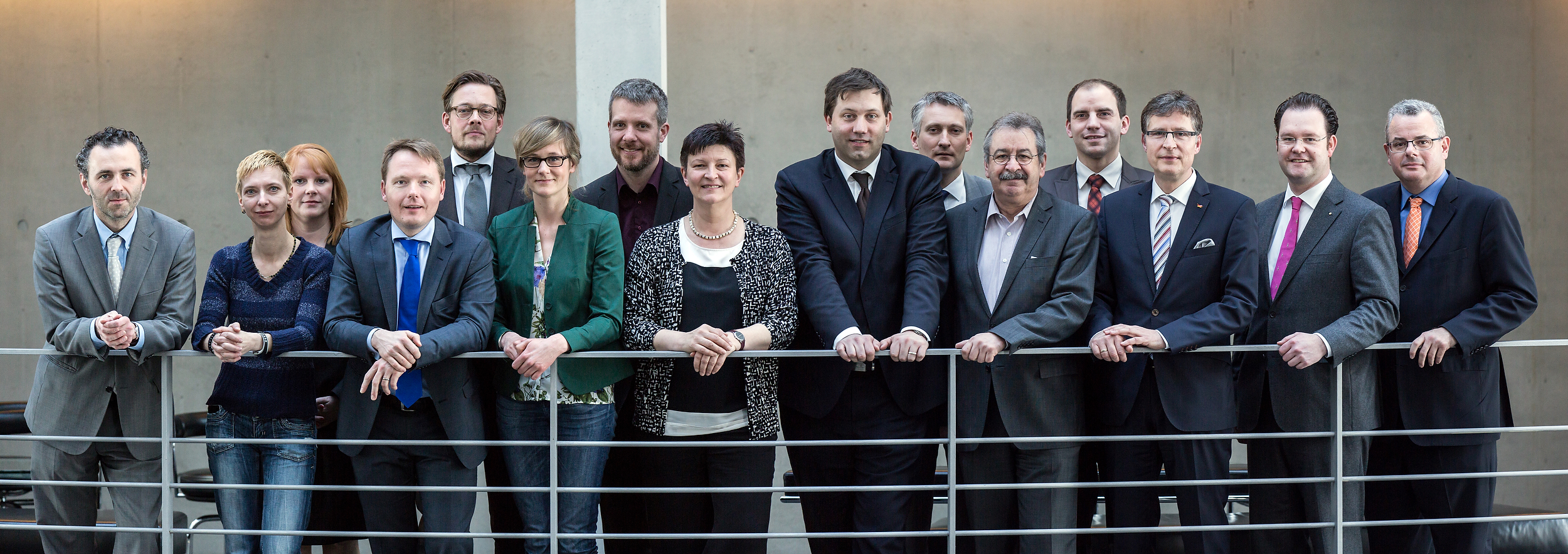 Group photo depicting members of the German Bundestag digital agenda committee, March 2014